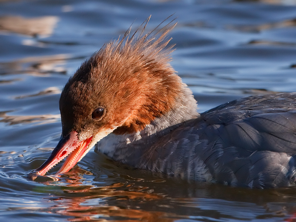 A female Common Merganser in Hogganfield Loch, Glasgow, Scotland.